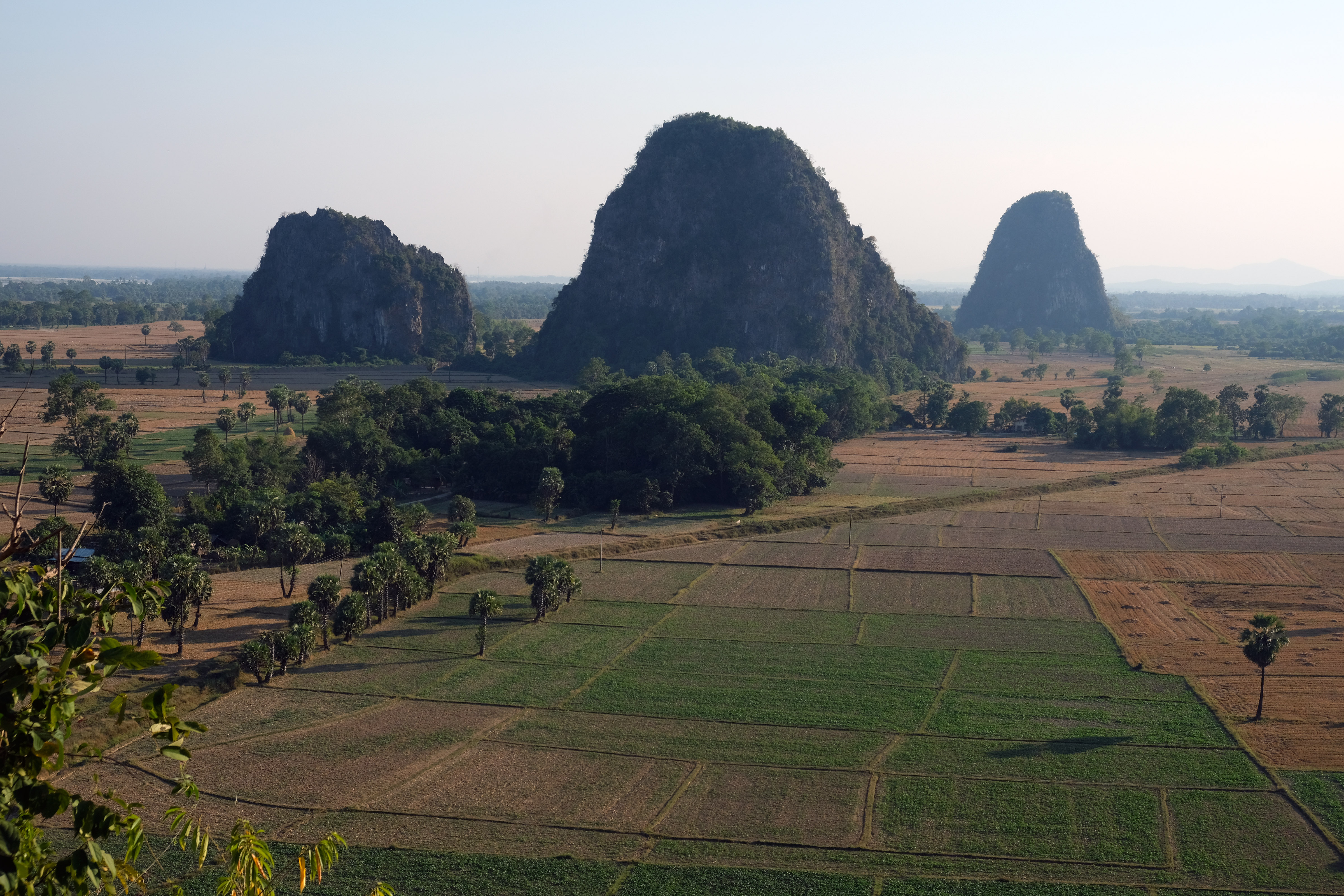 View from Kaw Gon towards Shwe Kyar Pwint.